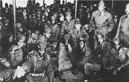 2nd Ranger Company (Airborne) riding a ferry on San Francisco Bay in 1950.